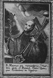 §Licensing